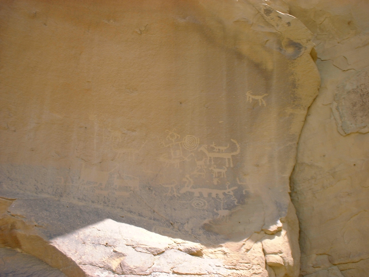 An image of petroglyphs at the Una Vida site in Chaco Canyon (New Mexico, United States).